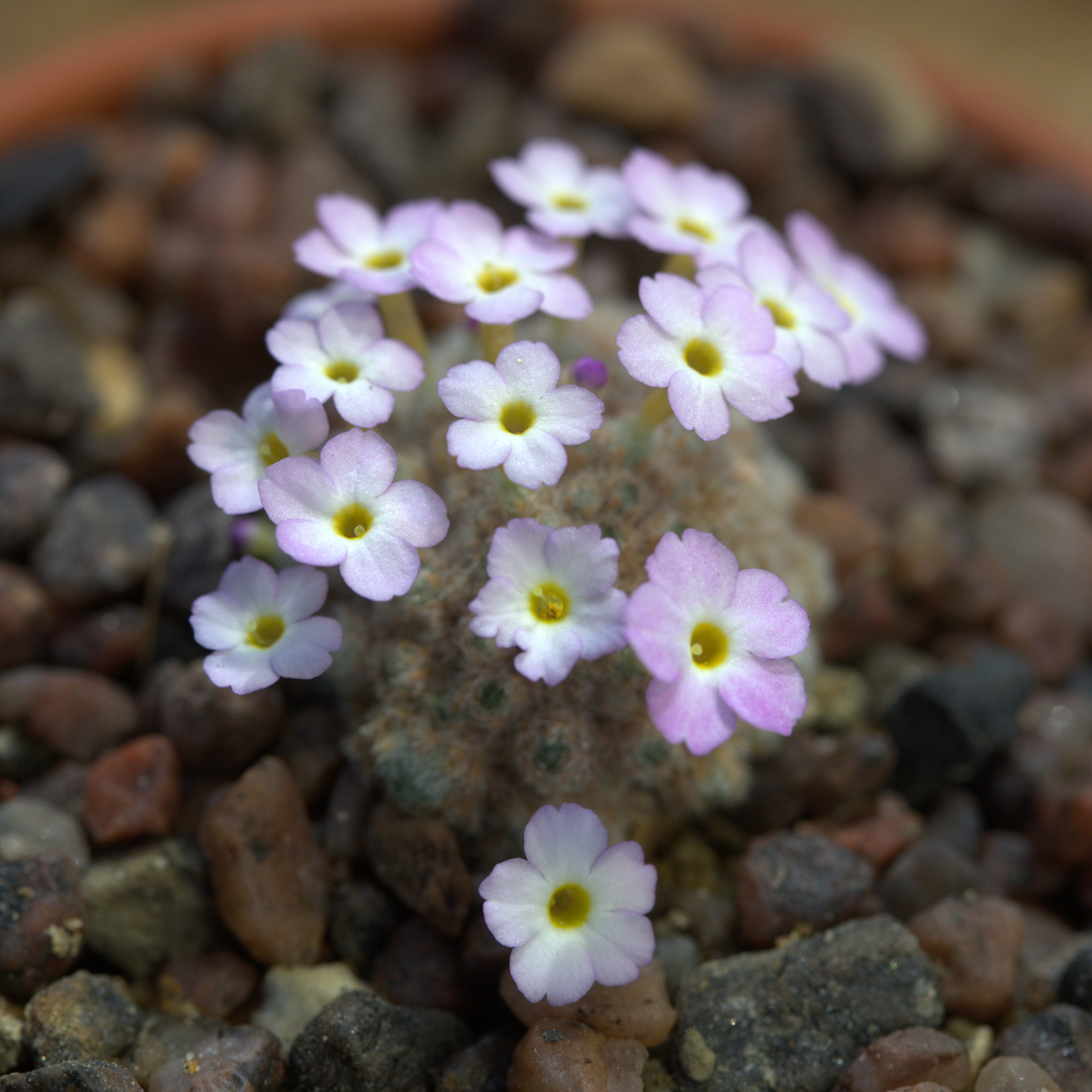 Dionysia iranshahrii at Gothenburg Botanical Garden in 2015. Plant id: JLMS 02-55